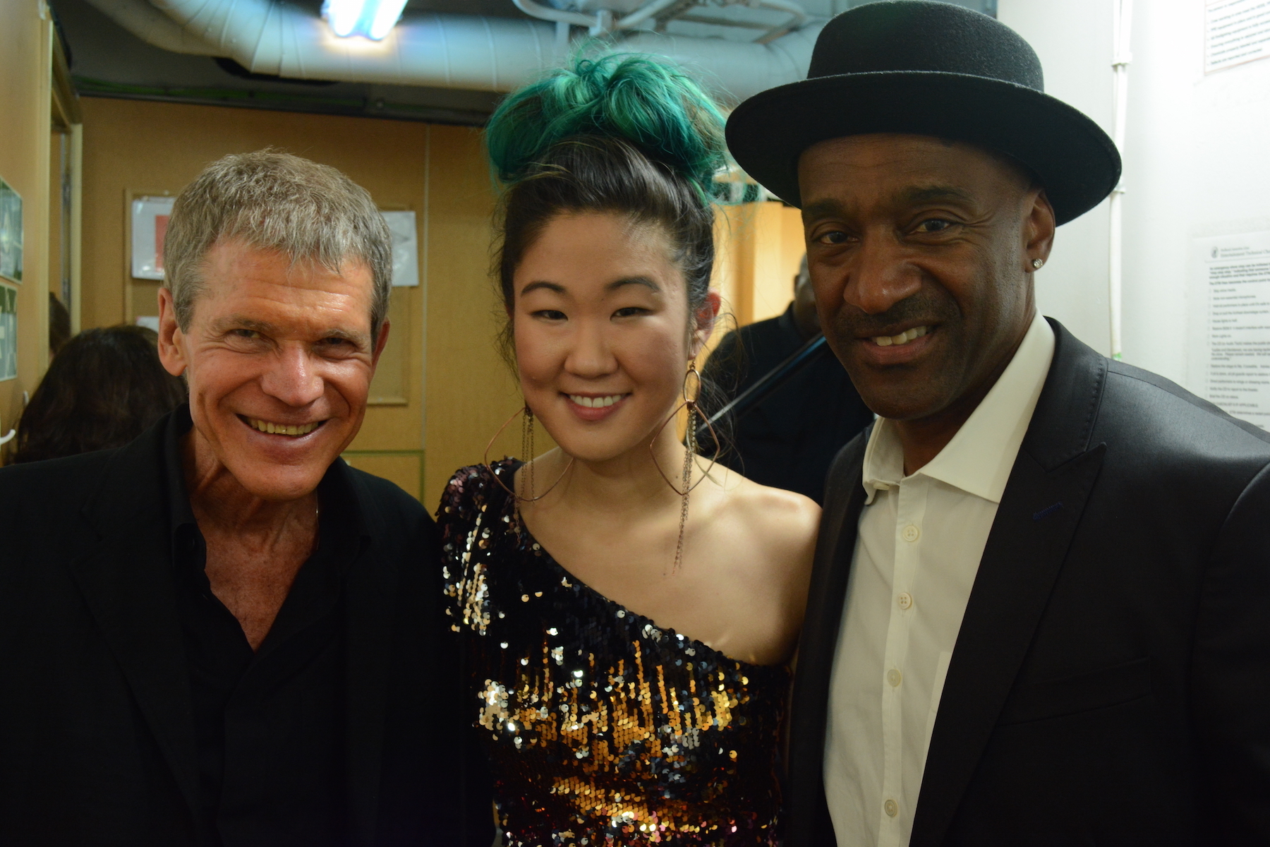 David Sanborn, Marcus Miller, Grace Kelly on The Smooth Jazz Cruise, March 7, 2015